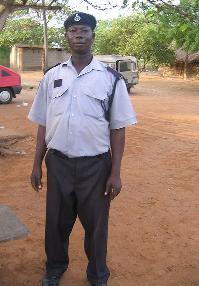 Ghana Police Service Police Officer of Ghana Police Service, on road in Ghana.